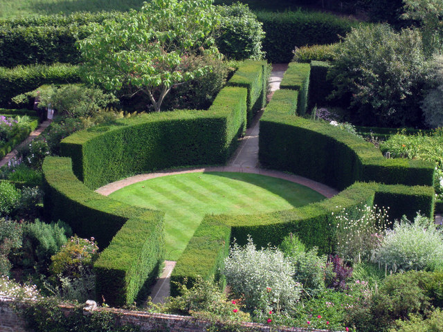 Formal Gardens at Sissinghurst Castle